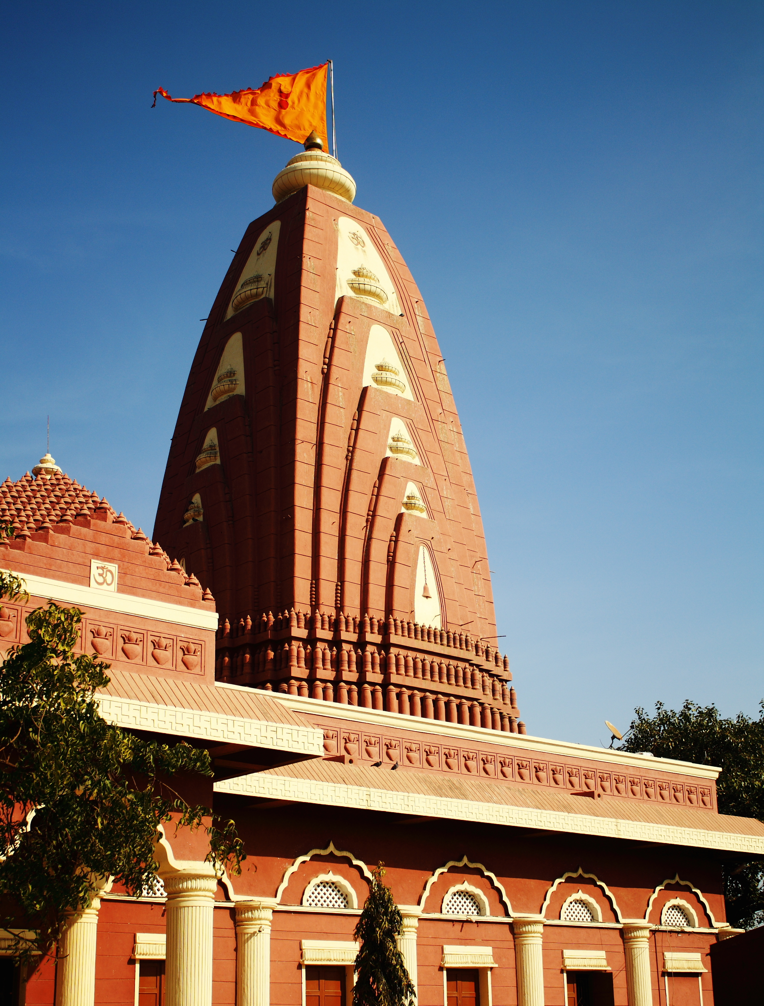 Nageshwar Jyotirling Jamnagar Gujrat